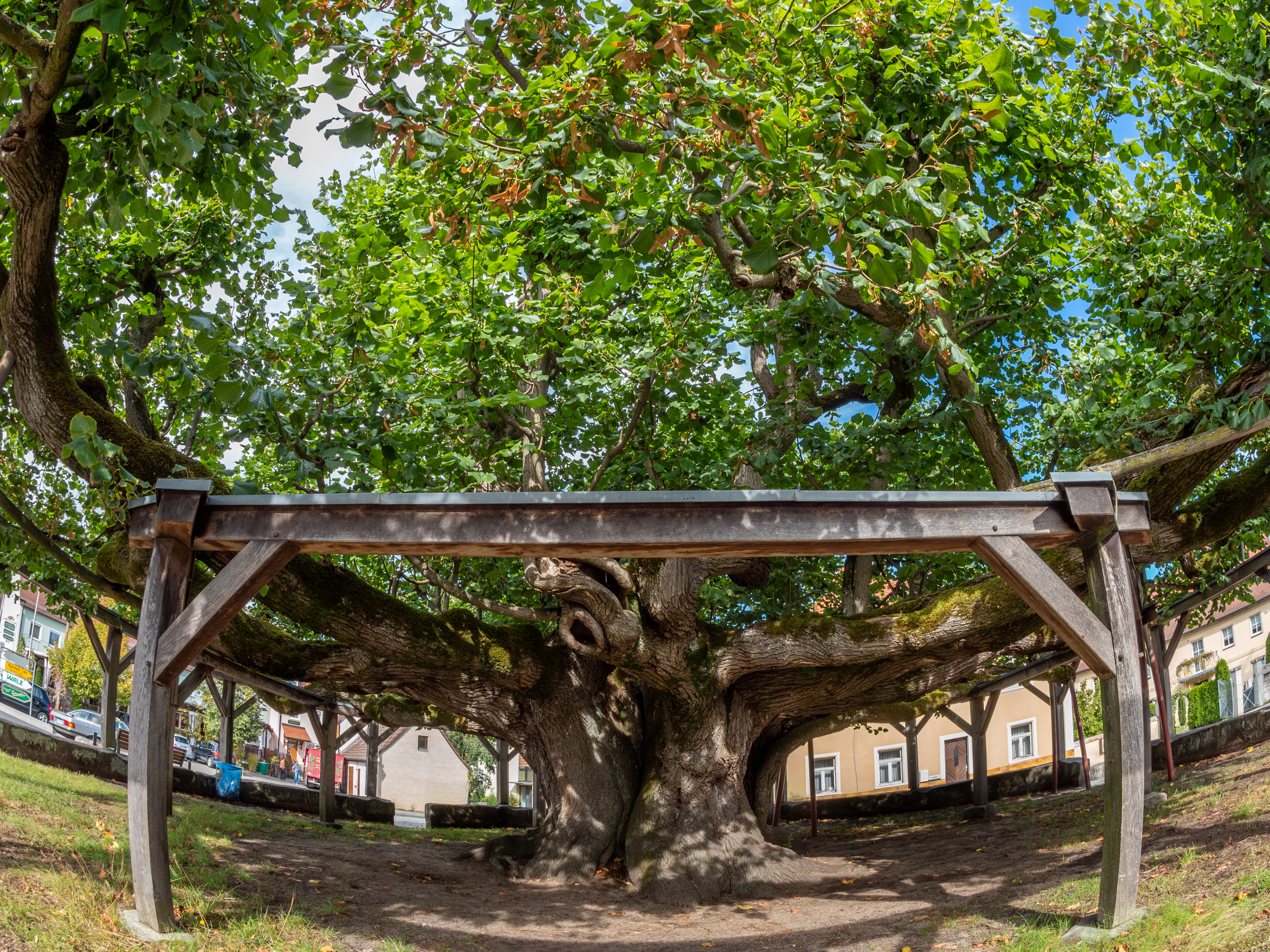 Village lime tree in Effeltrich